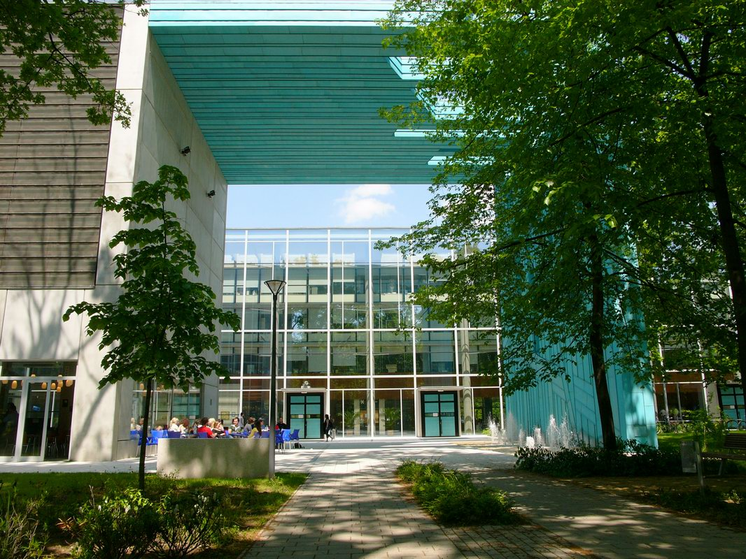 University Debrecen, Faculty of lifescience